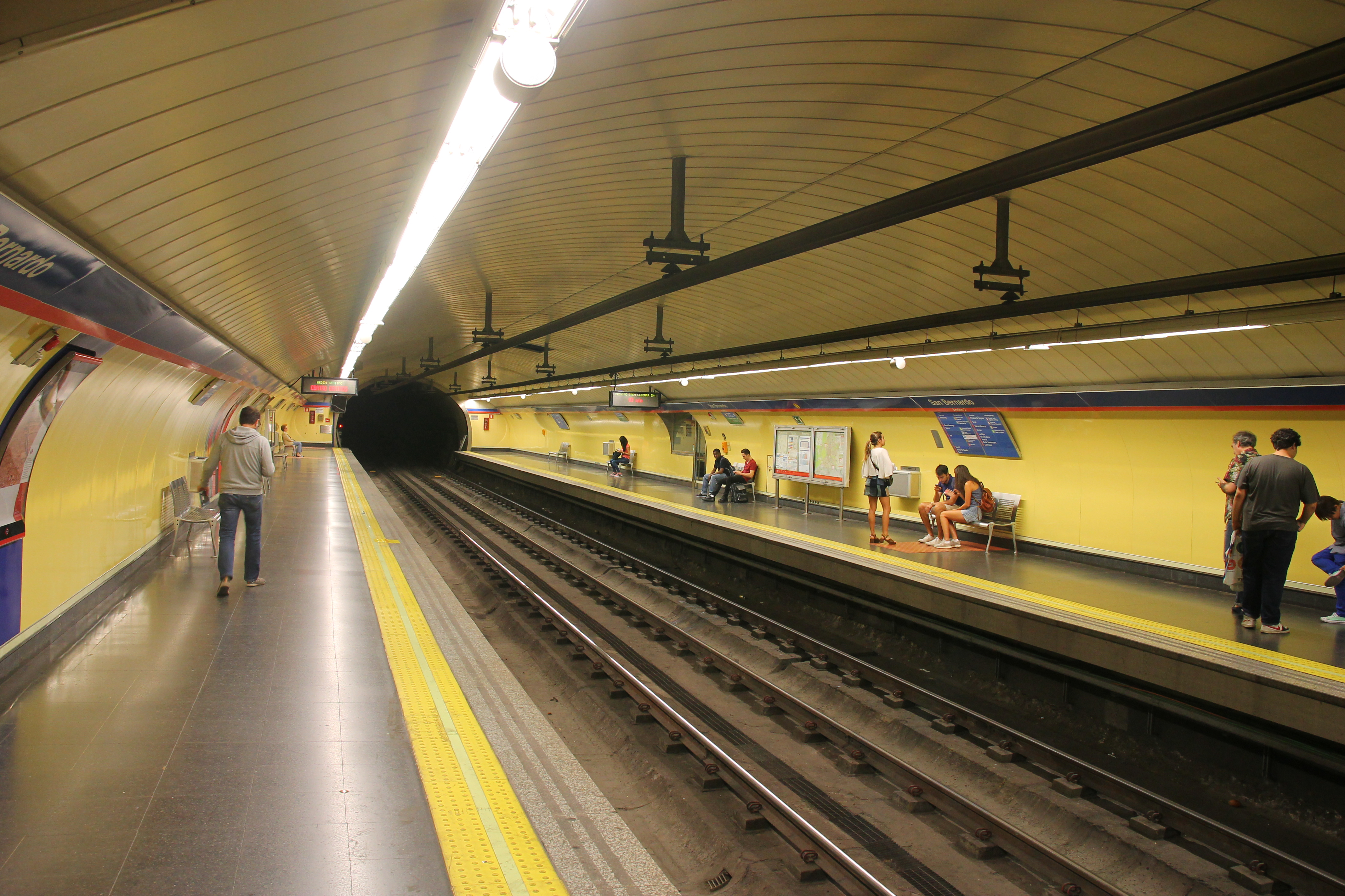 Estación de San Bernardo